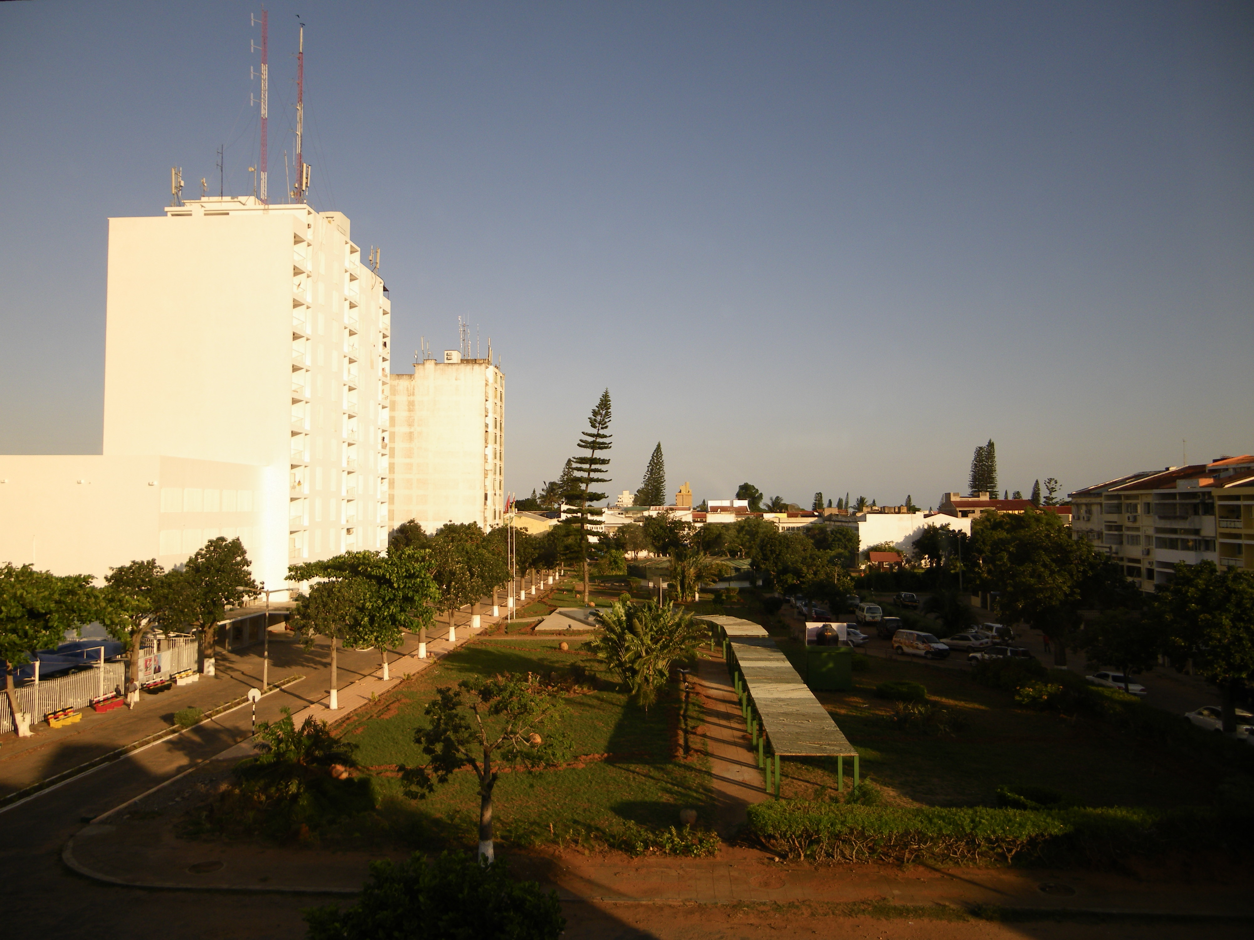 Frente de Libertação street, Sommerschield neighbourhood, Maputo, Mozambique